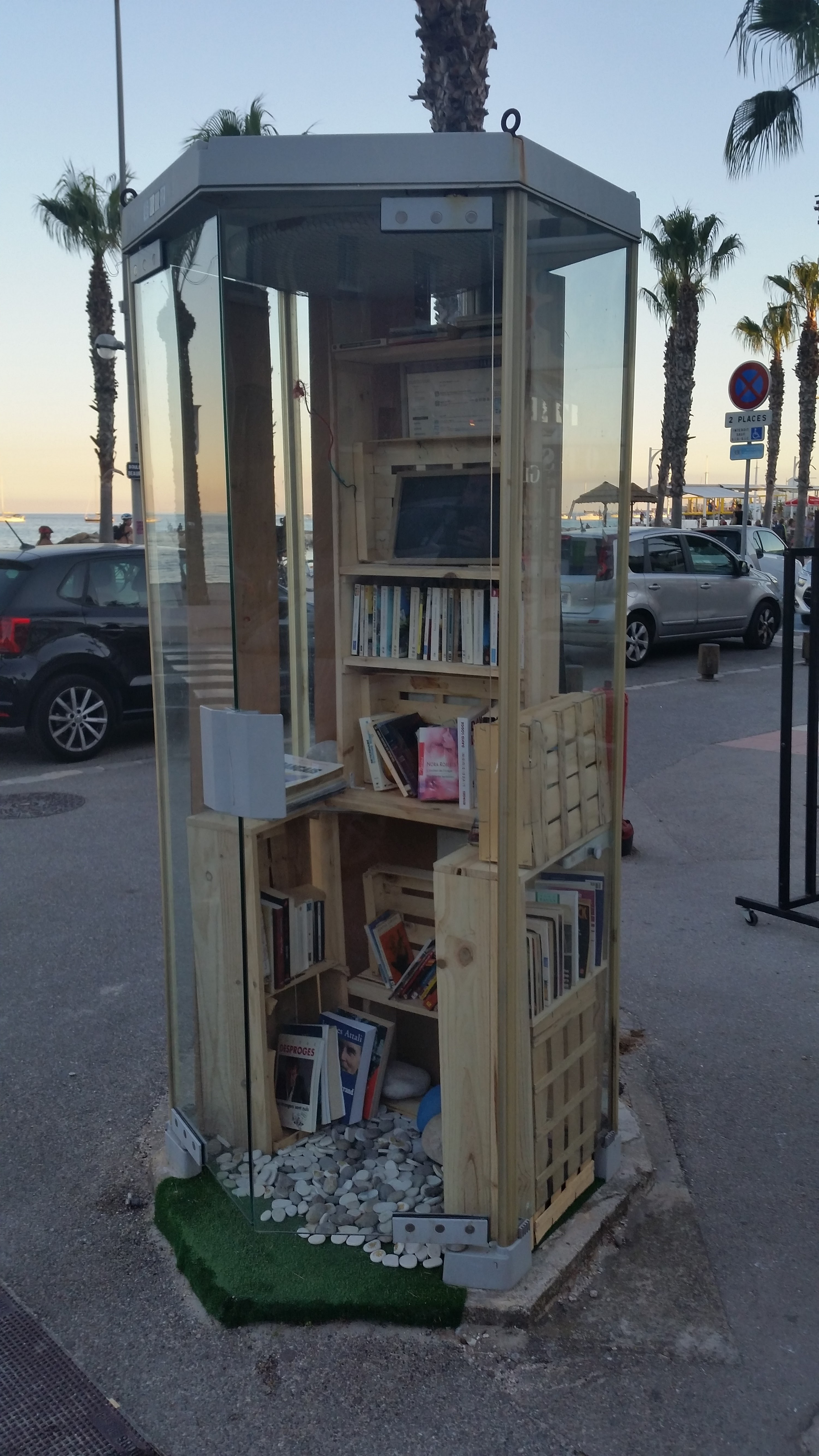 Phone cabinet in La Ciotat (Fr) dedicated to book crossing